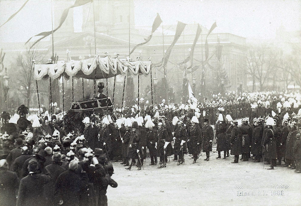 Funeral procession of German Emperor William I in Mitte, in the background you can see the old Berlin Cathedral.